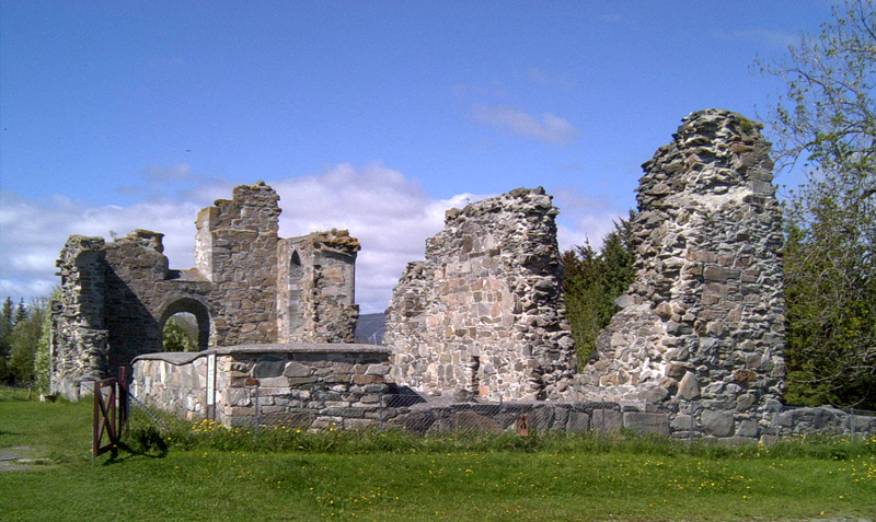 Tautra Mariakloster, Frosta, Norway.